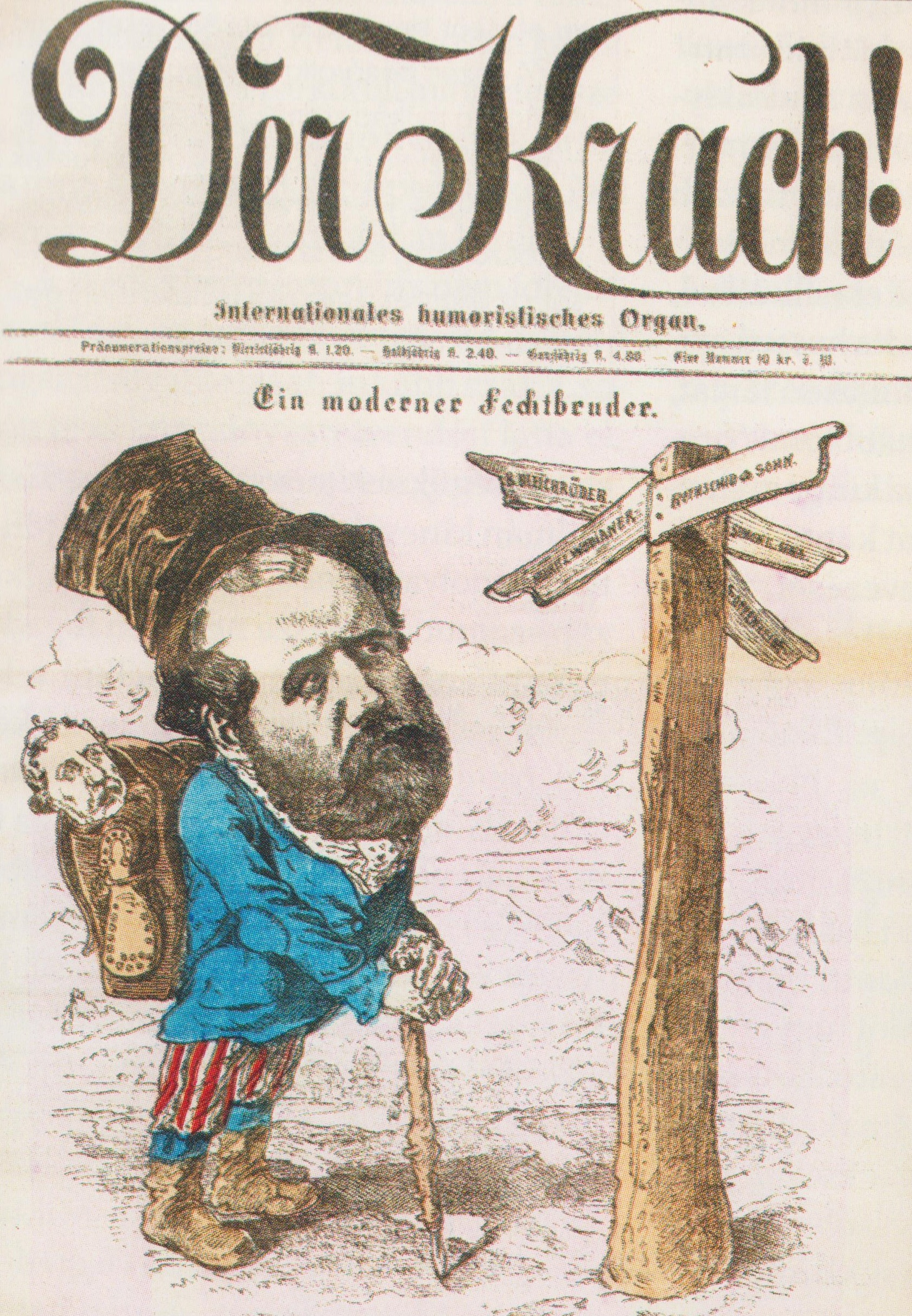 Caricature of Der Krach: Bittó Cabinet's dilemma to which bank should choose to borrowing.